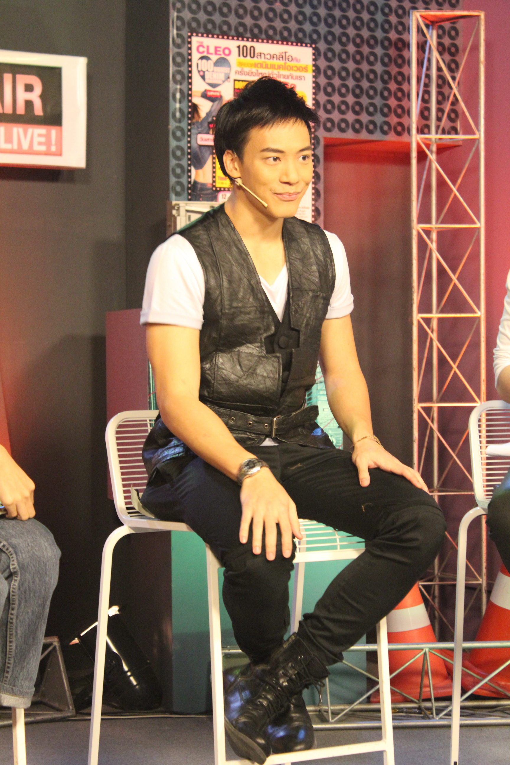 Sukrit Wisetkaew at VERY TV